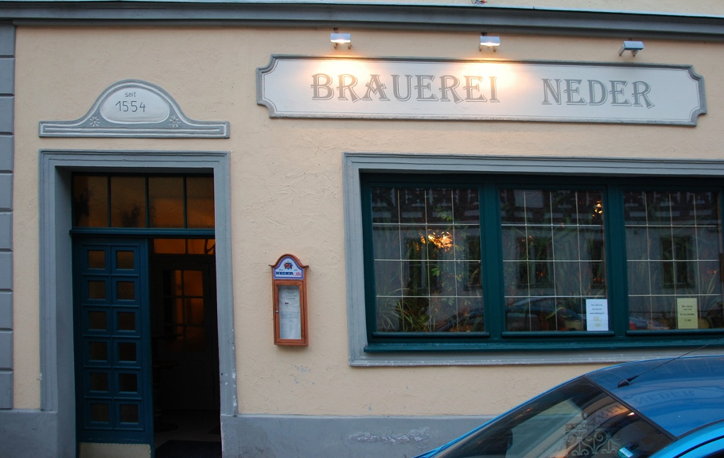 Brewery Neder from Forchheim